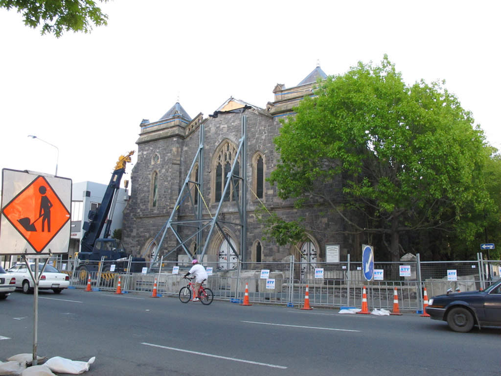 A different view of the temporary bracing.